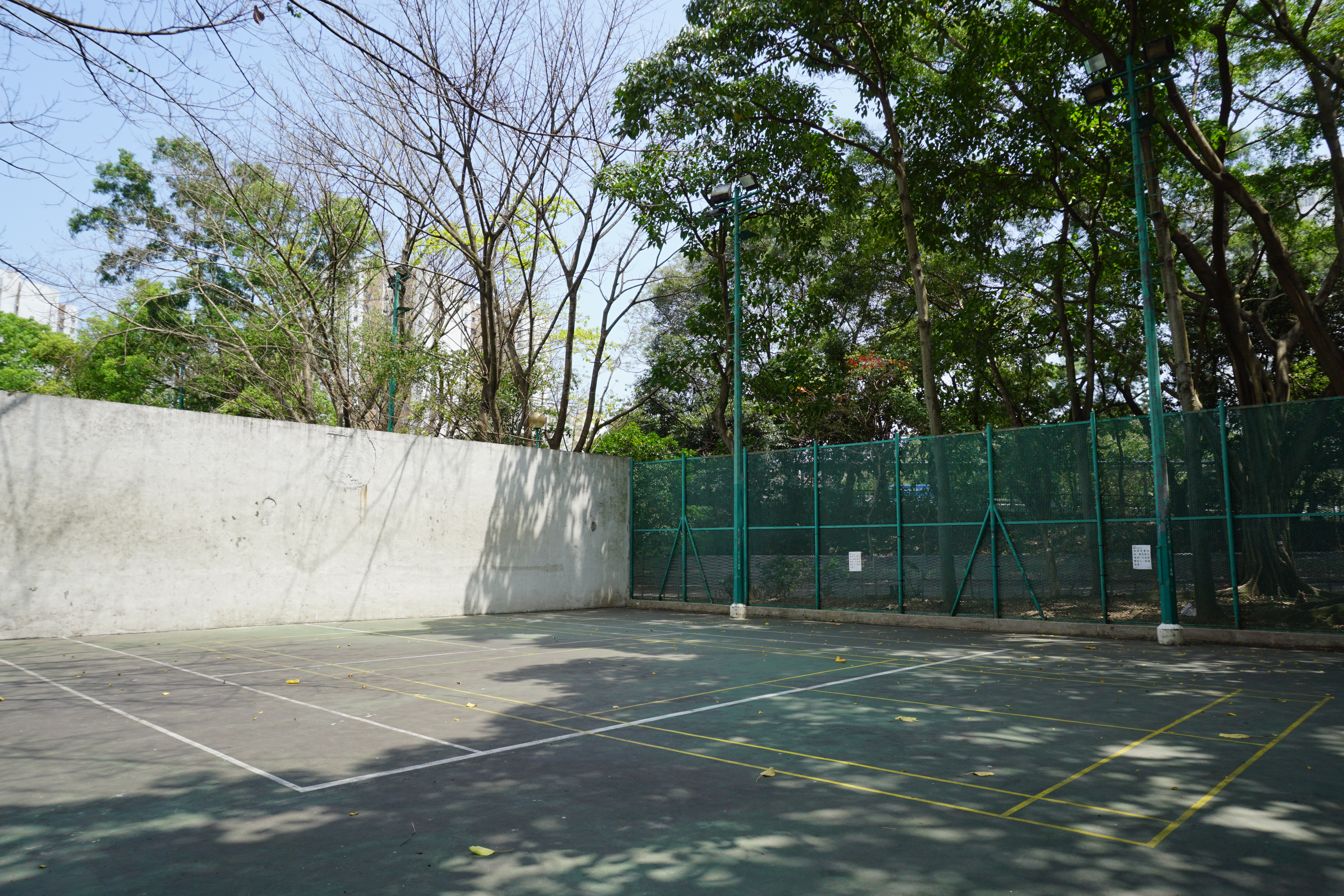 Tai Ping Estate in Sheung Shui, Hong Kong.